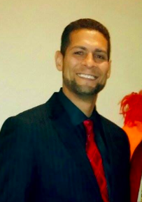 Depicted person: Juan Rivera – man wrongly convicted for rape and murder